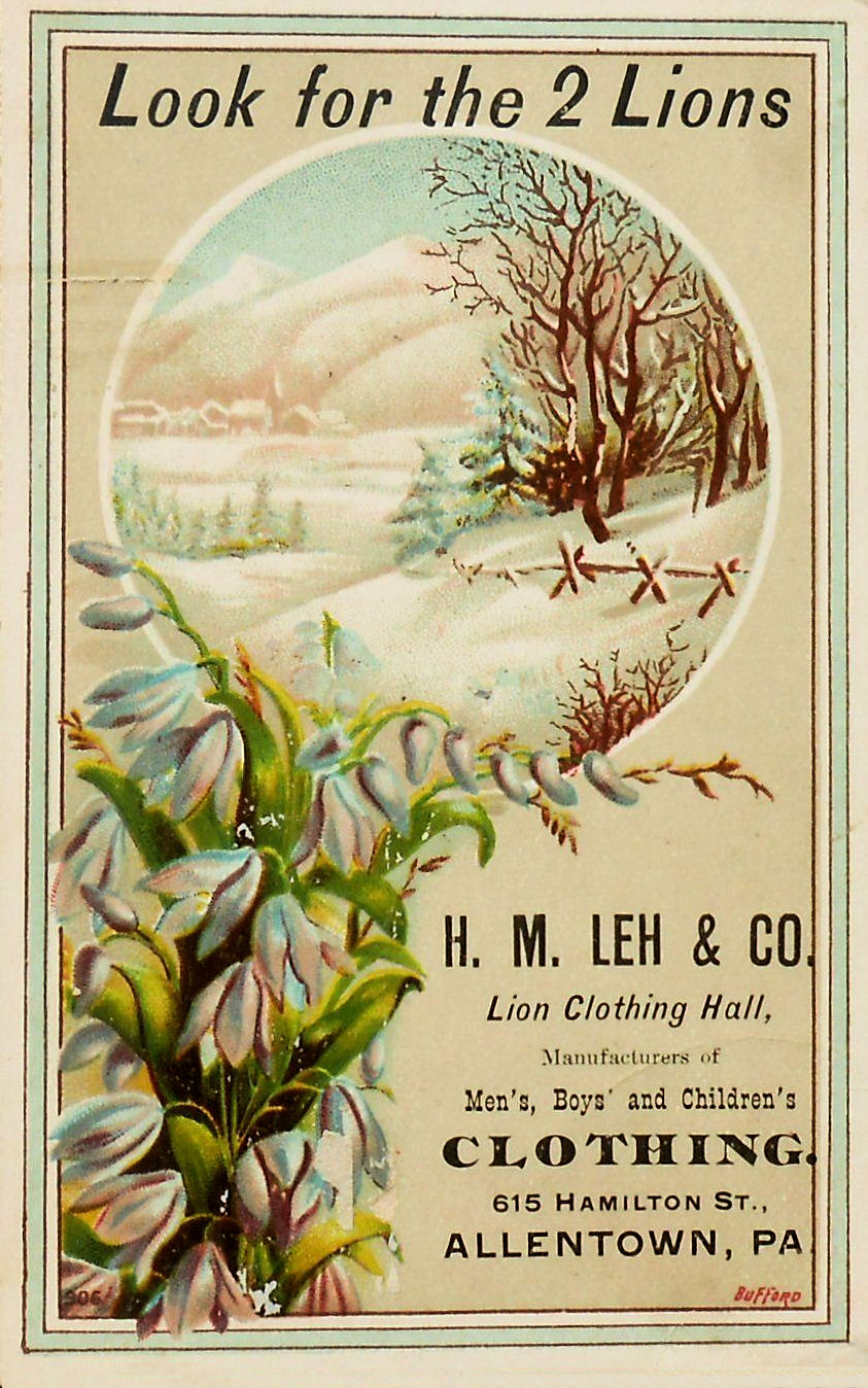 1895 - H Leh Company Advertisement